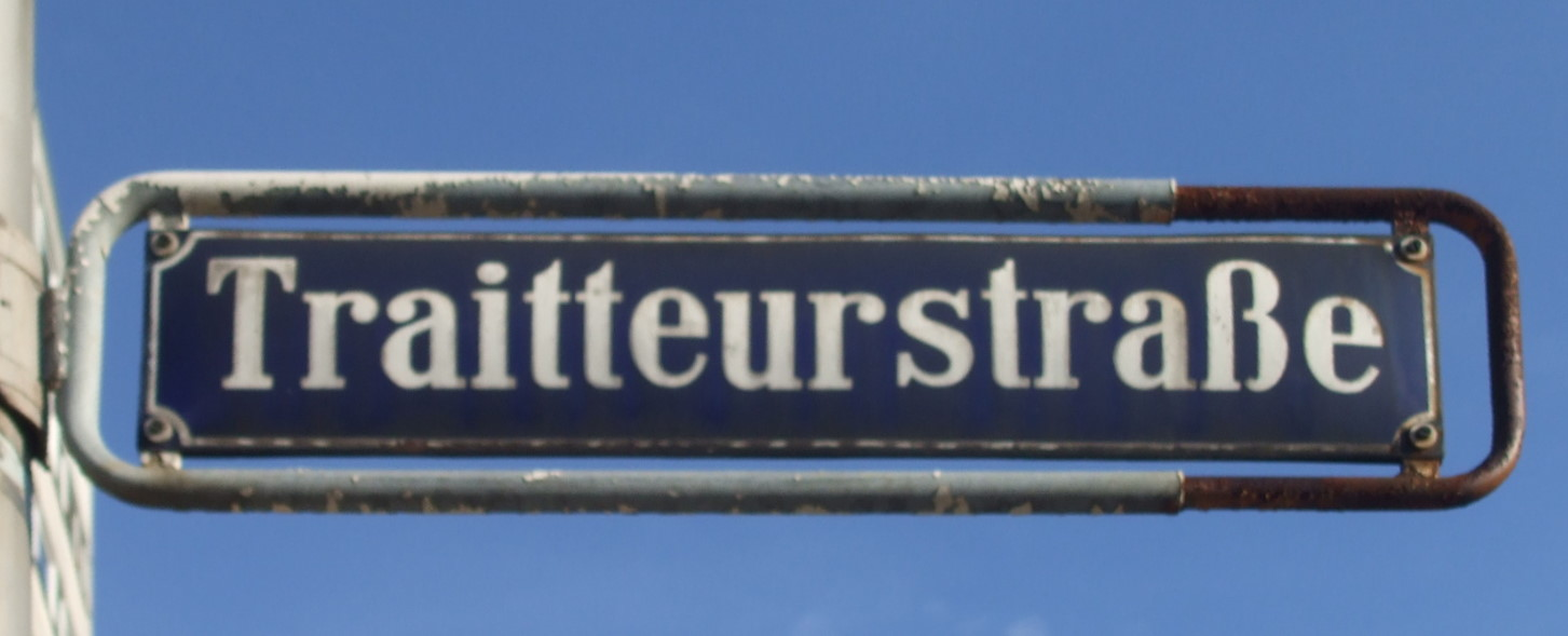 Streetname / Display